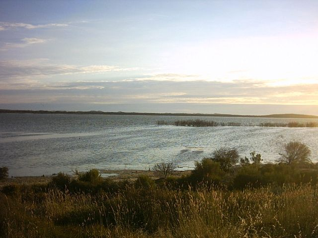 Murray Lagoon, Kangaroo Island, South Australia. Photo taken by Stephen West in January 2005 with a Digitrex DSC-2100 digital camera.